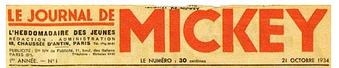 Upfront mark of Le Journal de Mickey issue 1 published in Paris by Paul Winkler/Opera Mundi/Hachette.